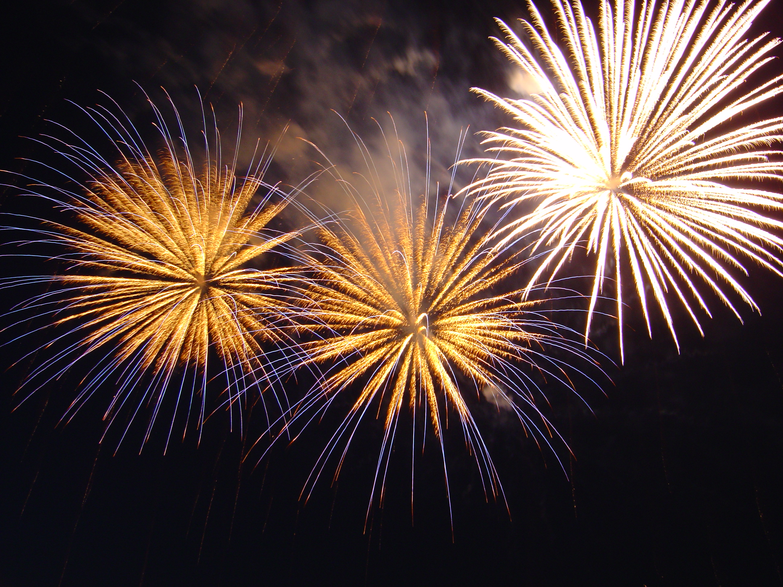 Bratislava; New Year 2005; FireWorks